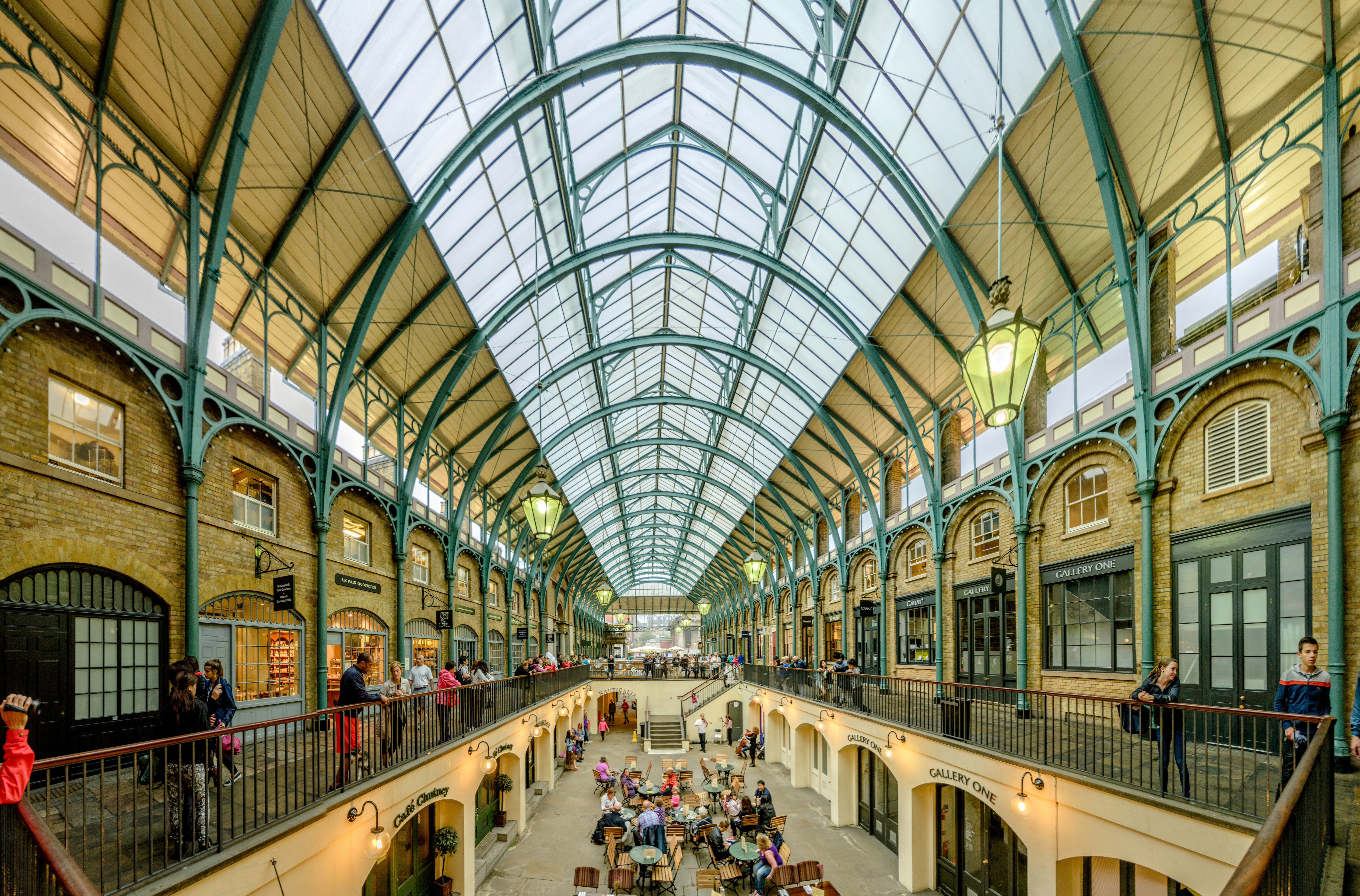 COVENT GARDEN MARKET BUILDING Wikidata has entry Q17549514 with data related to this building.